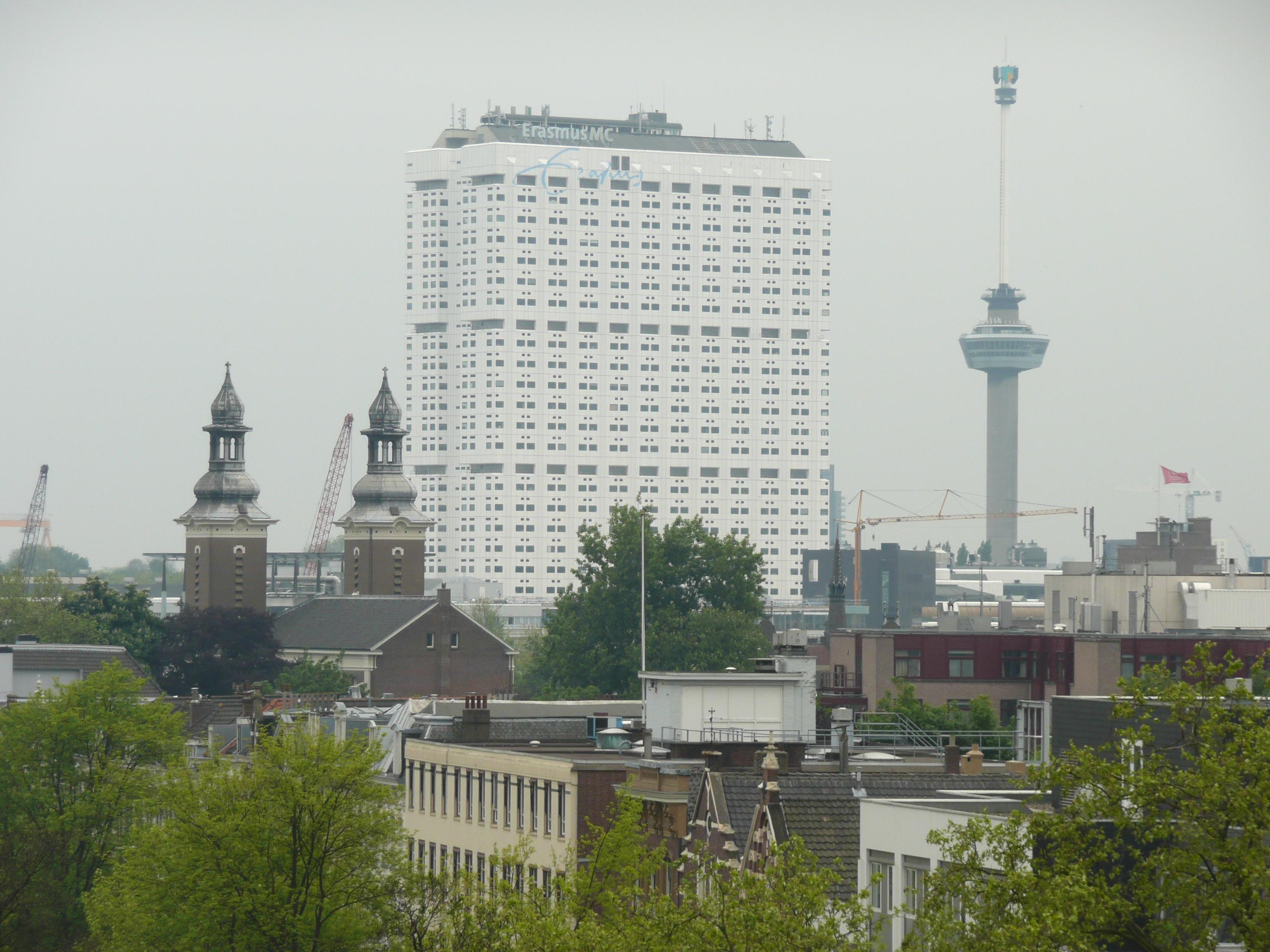 Erasmus MC and Euromast